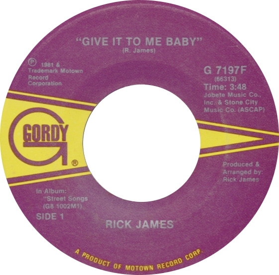 One of side-A pressing labels of the US vinyl single "Give It to Me Baby" by Rick James